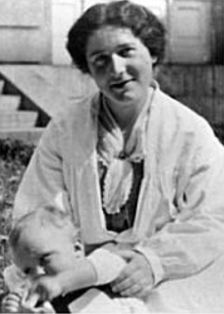 Picture from the beginning of the 1920s, probably made in Breslau or Berlin: Charlotte Landé, M. D.